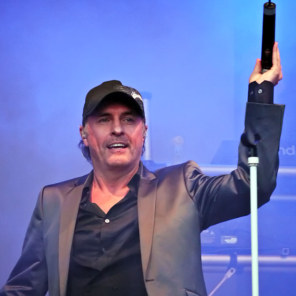 Peter Schilling live on stage in Leipzig, June 2010